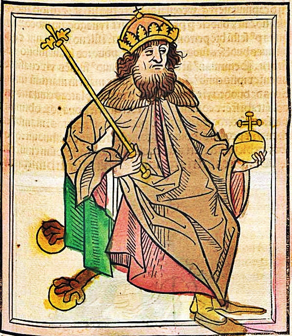 Otto V of Bavaria